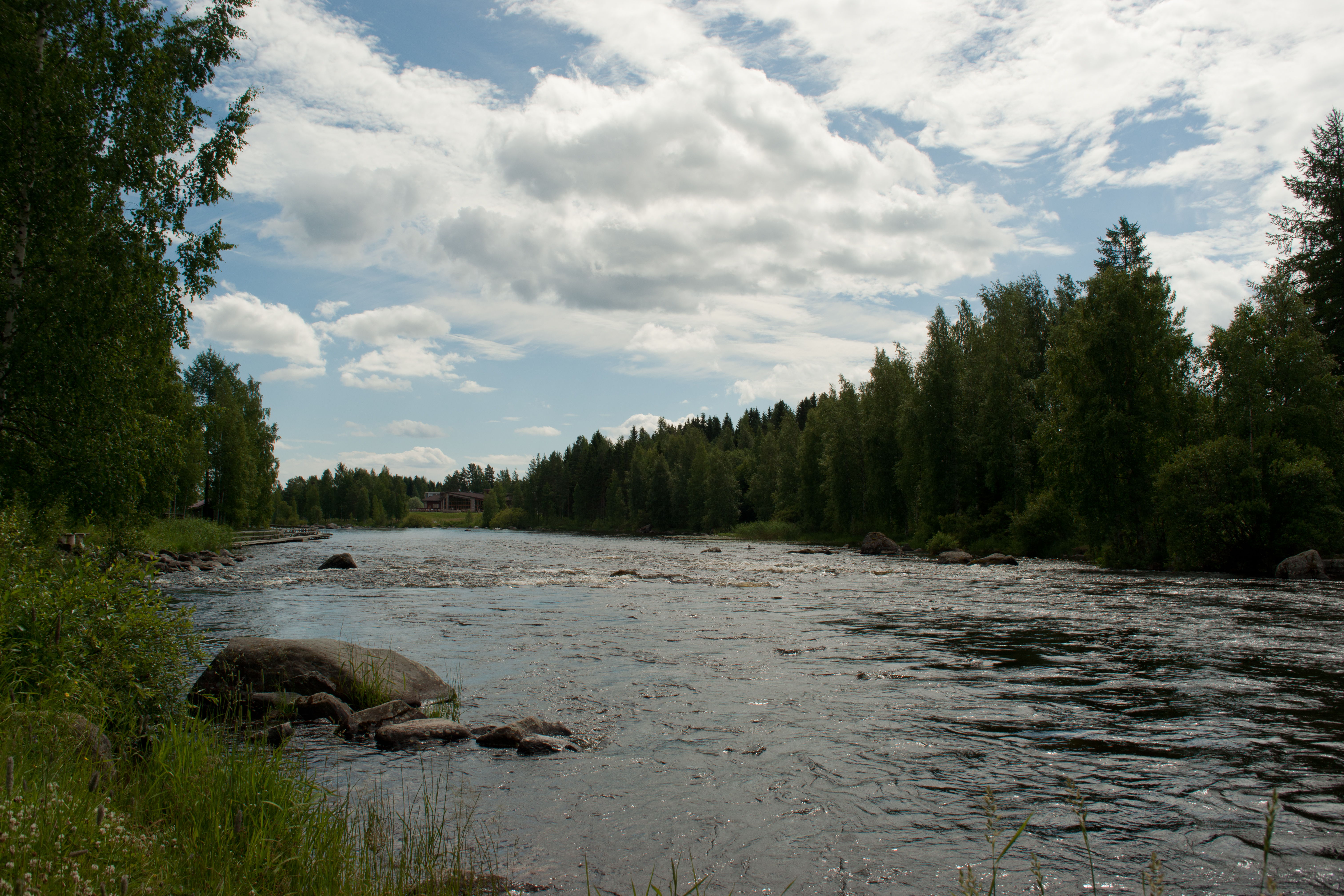 Äyskoski rapids in Tervo, Finland.